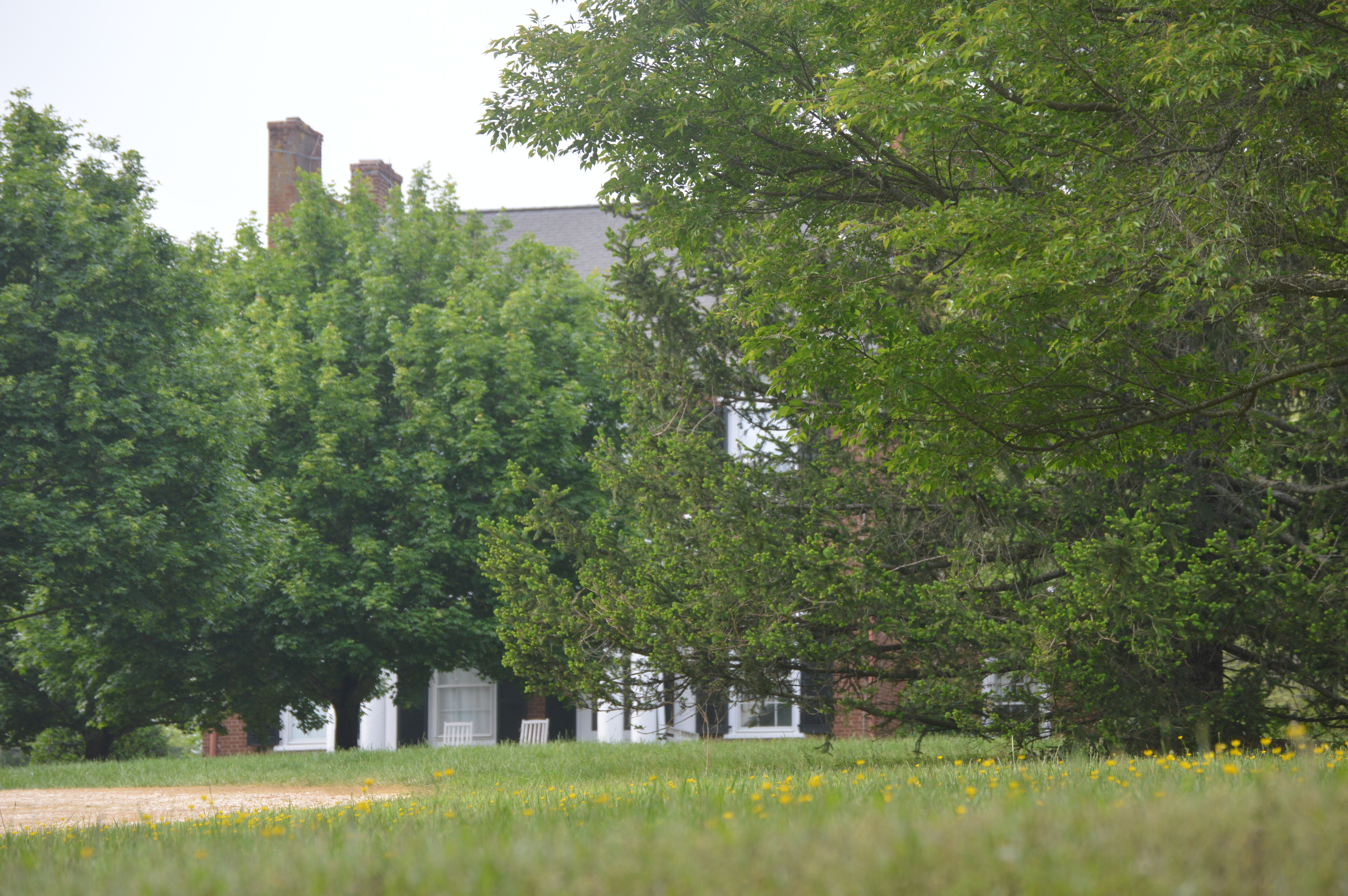 Front of Bel Aire, located at 4710 Dickerson Road northeast of Charlottesville in Albemarle County, Virginia, United States. Built in 1825, it is listed on the National Register of Historic Places.